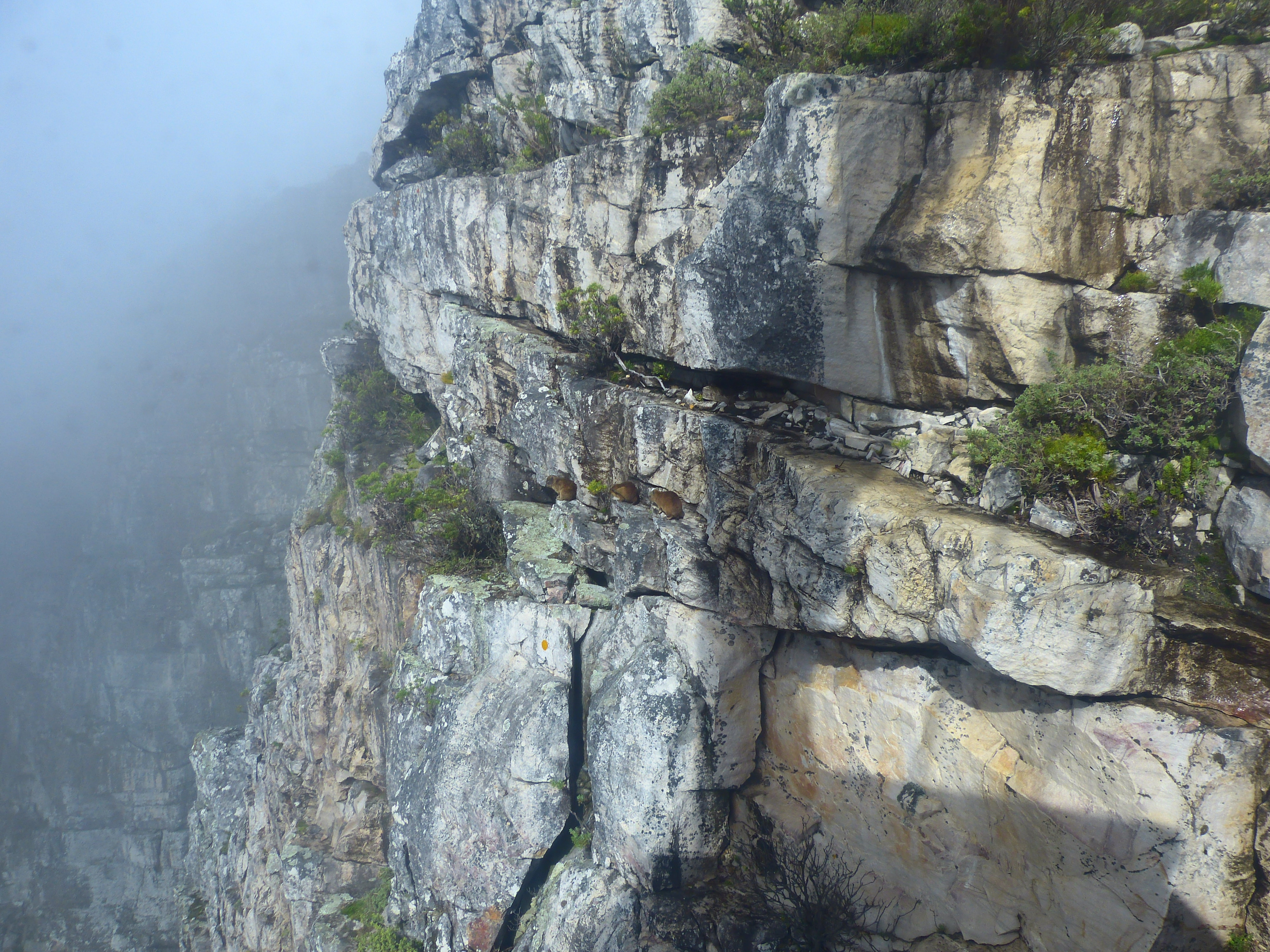 Watch out if you can find some hyrax . This media shows a South African Protected Site with SAHRA file reference 9/2/0180/0102.